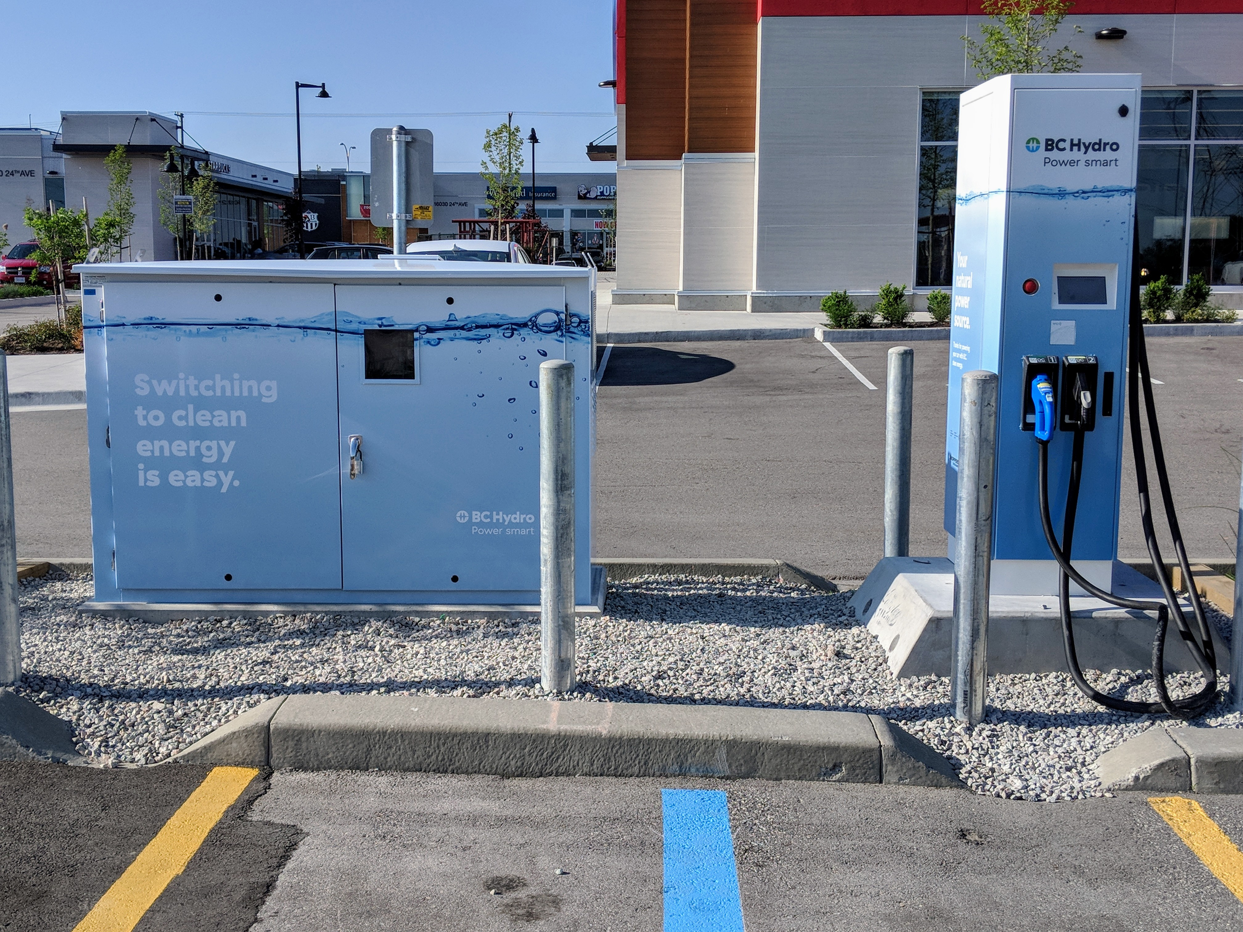 BC Hydro charging station located in Grandview Heights, Surrey, Canada.